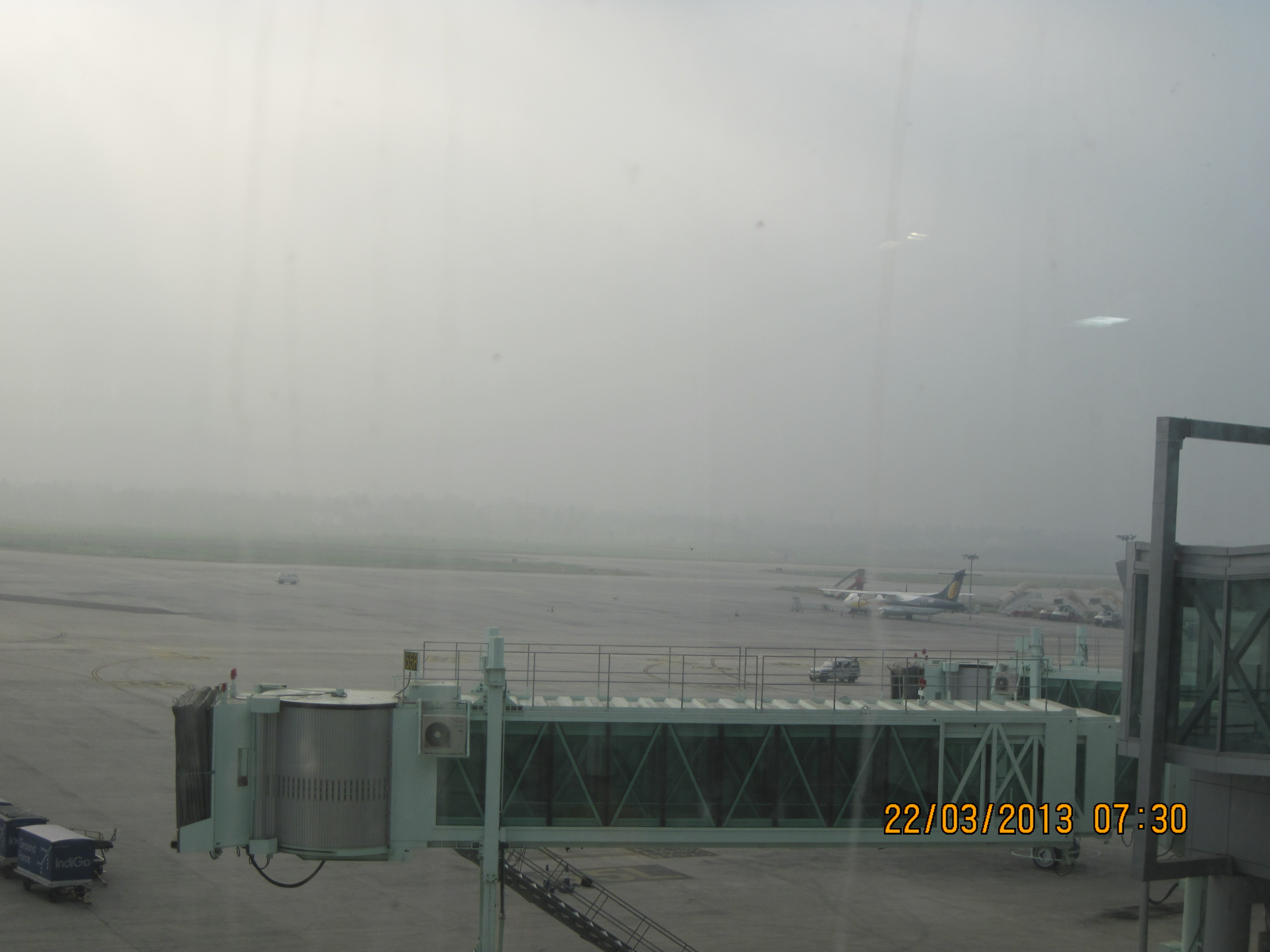 Kolkata Airport New Terminal Aerobridge